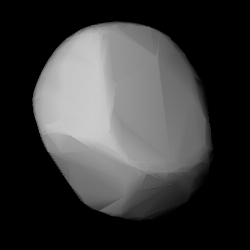 3D convex shape model of 1619 Ueta, computed using light curve inversion techniques. J. Hanuš, J. Ďurech, M. Brož, B. D. Warner (June 2011). "A study of asteroid pole-latitude distribution based on an extended set of shape models derived by the lightcurve inversion method". Astronomy and Astrophysics 530: A134. ISSN 0004-6361. arXiv